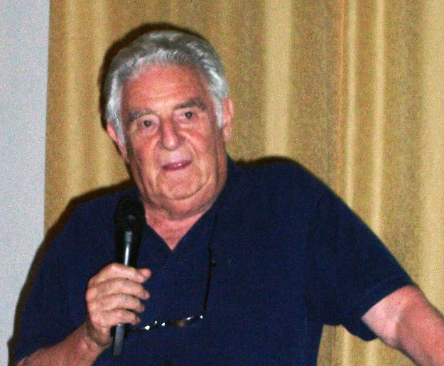 Emmanuel Anati